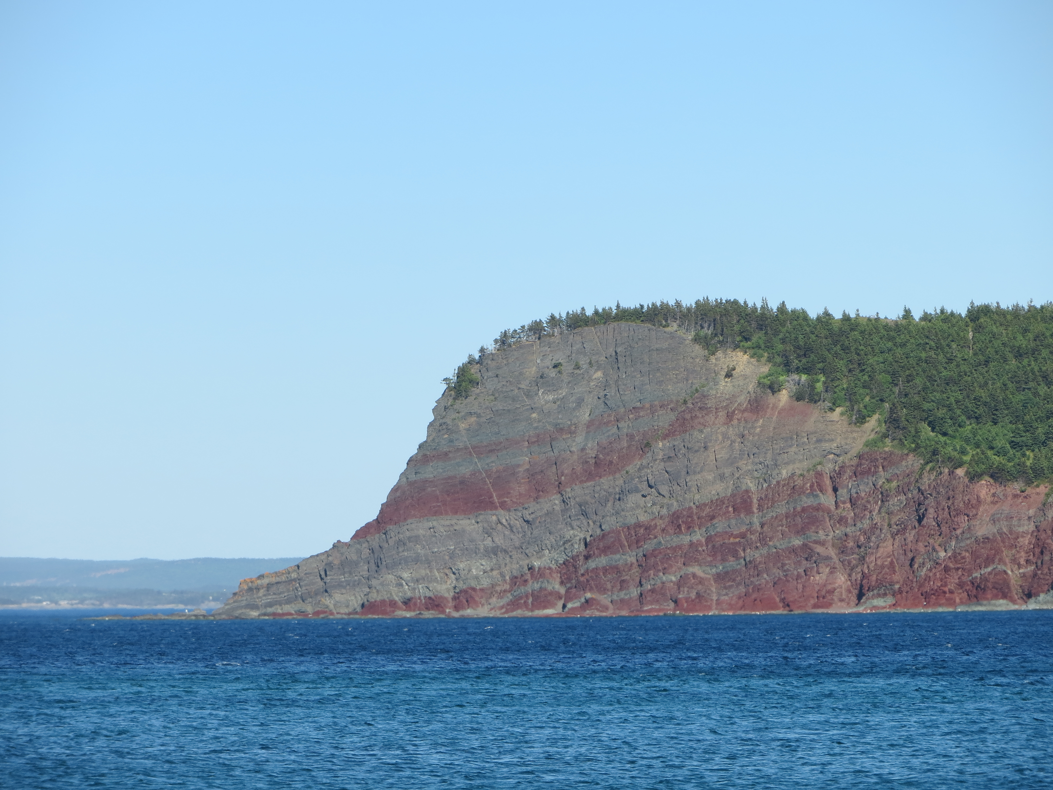 Bonavisat fm near Long Cove, Trinity Bay, NL Cooordinates of headland: 57.578°N, 53.6537°W